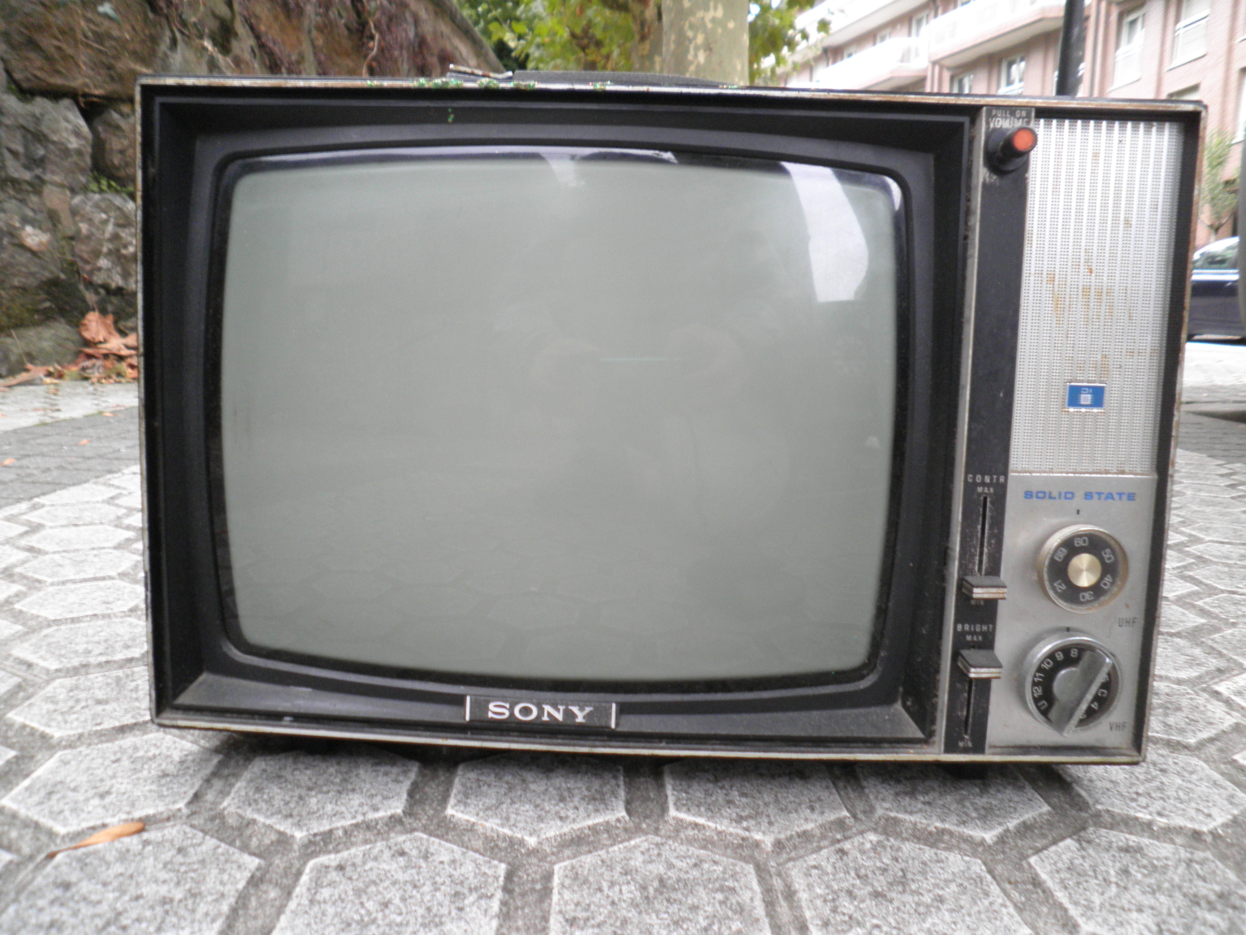 Sony CRT television set, made in Japan.